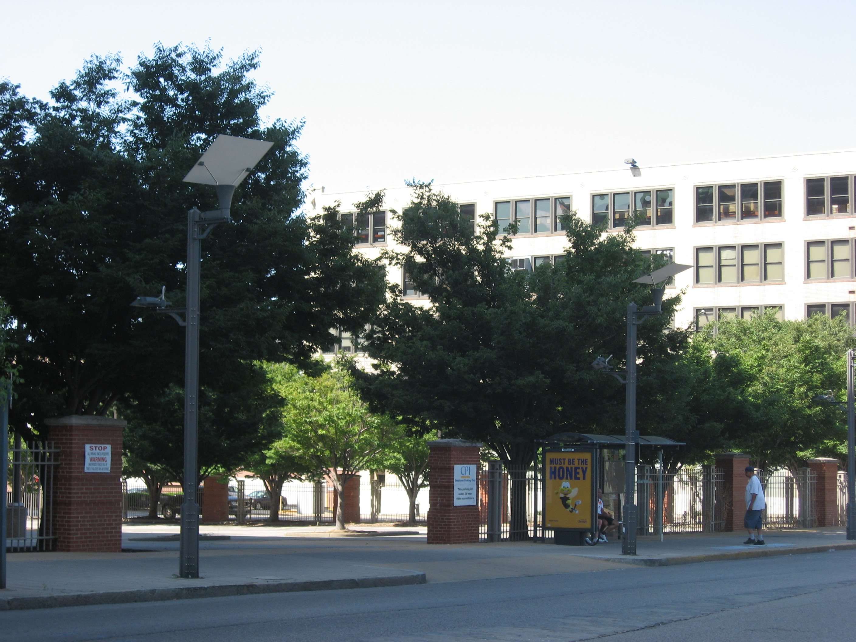 Site of the Marquette Hotel, which was formerly located at 1734 Washington Avenue in St. Louis, Missouri, United States. Built in 1906, it was listed on the National Register of Historic Places in 1985, and it has not yet been removed, despite its destruction.